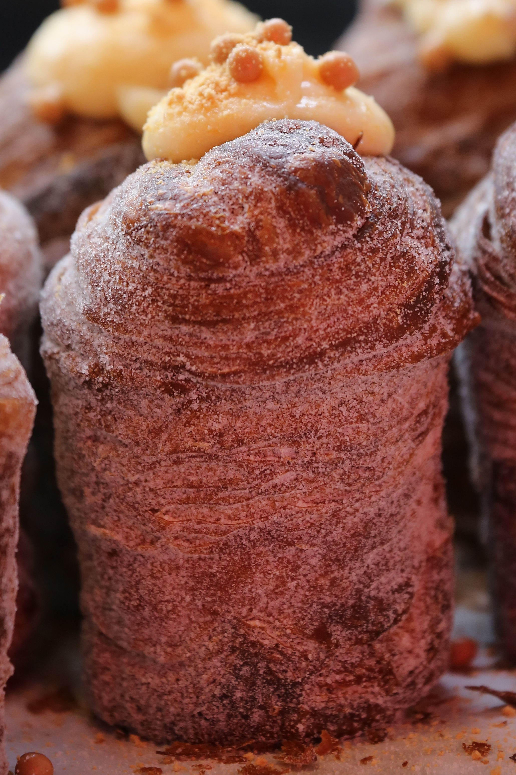 Mr. Holmes Bakehouse (Cruffins), 1042 Larkin St, San Francisco, CA 94109 Cruffins at Mr. Holmes Bakehouse (TK4)